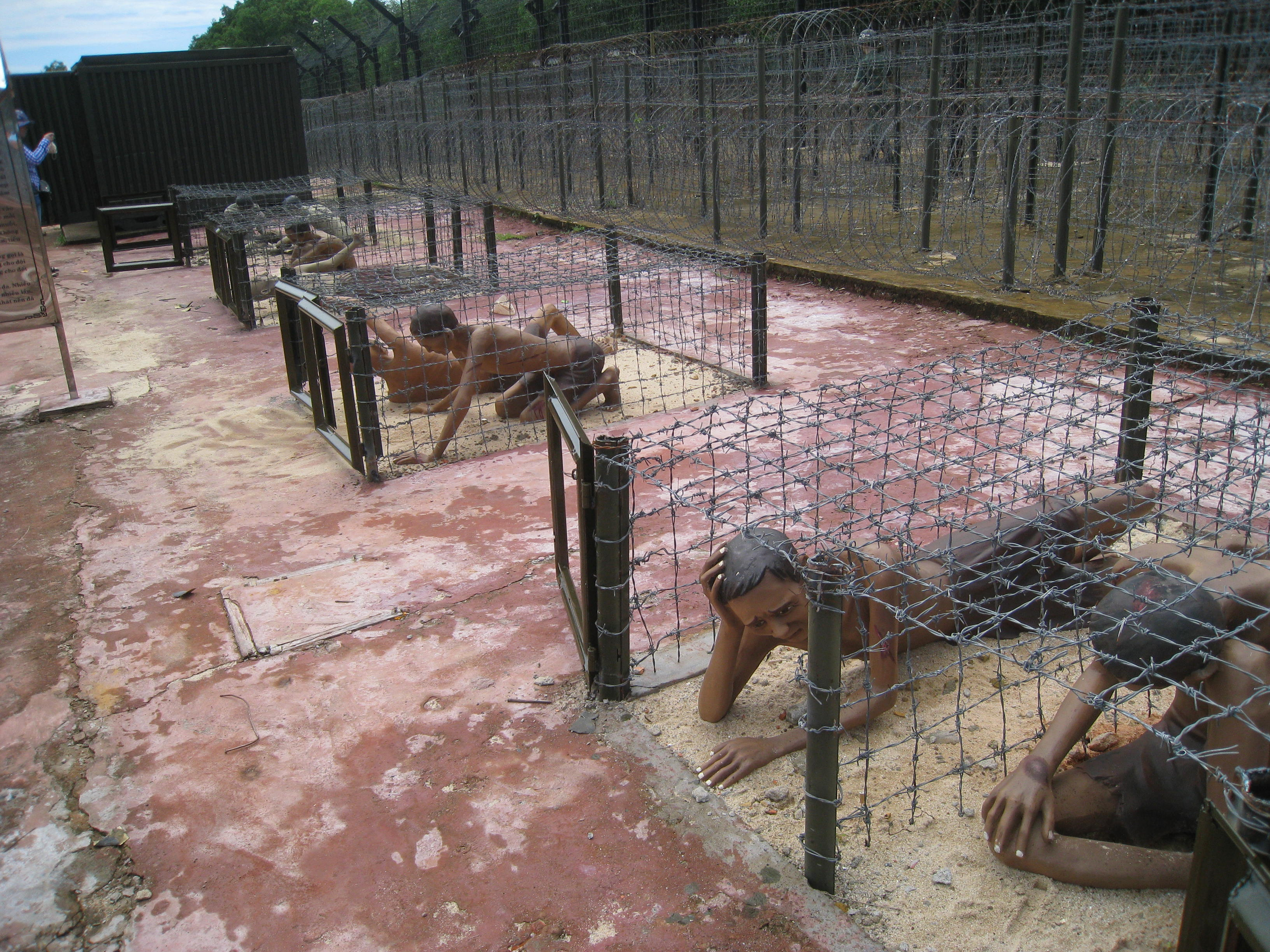 Models of "Tiger's Cage" in the Phu Quoc Prison, Phu Quoc Island, Vietnam